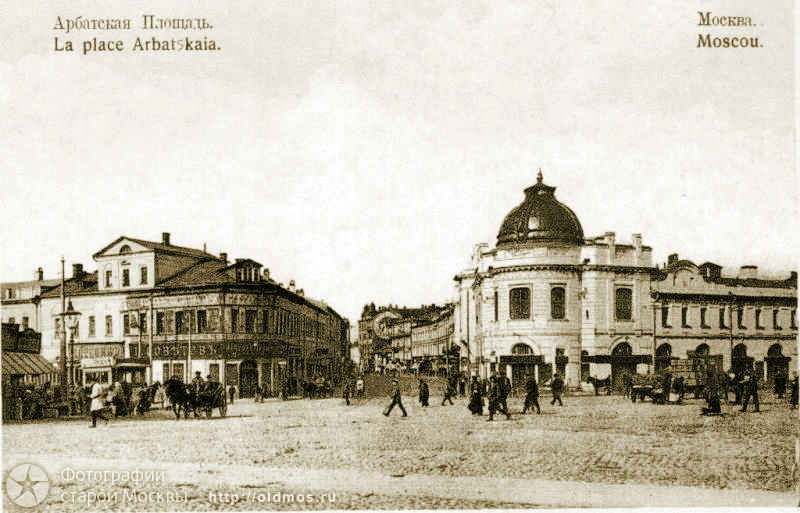 Arbat Square Moscow